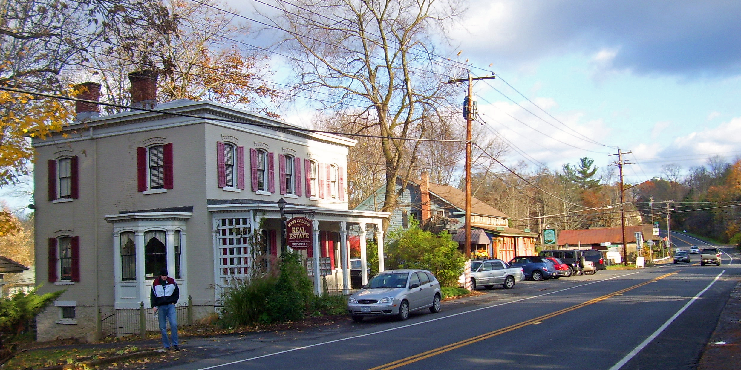 Downtown High Falls, NY, USA